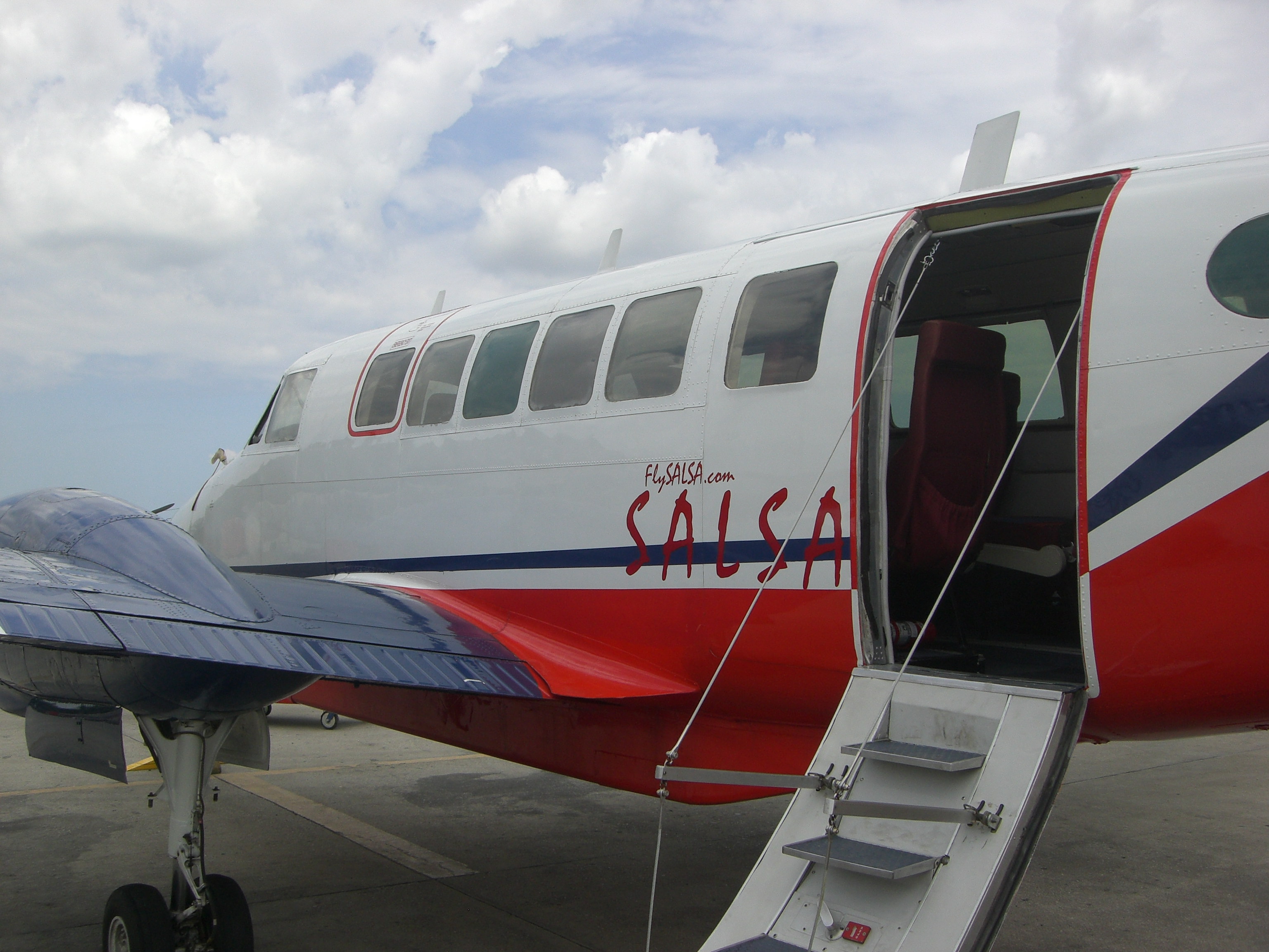 Salsa d'Haiti's first Beechcraft 99 to be registered HH-APA